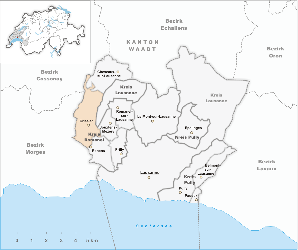 Municipality Crissier